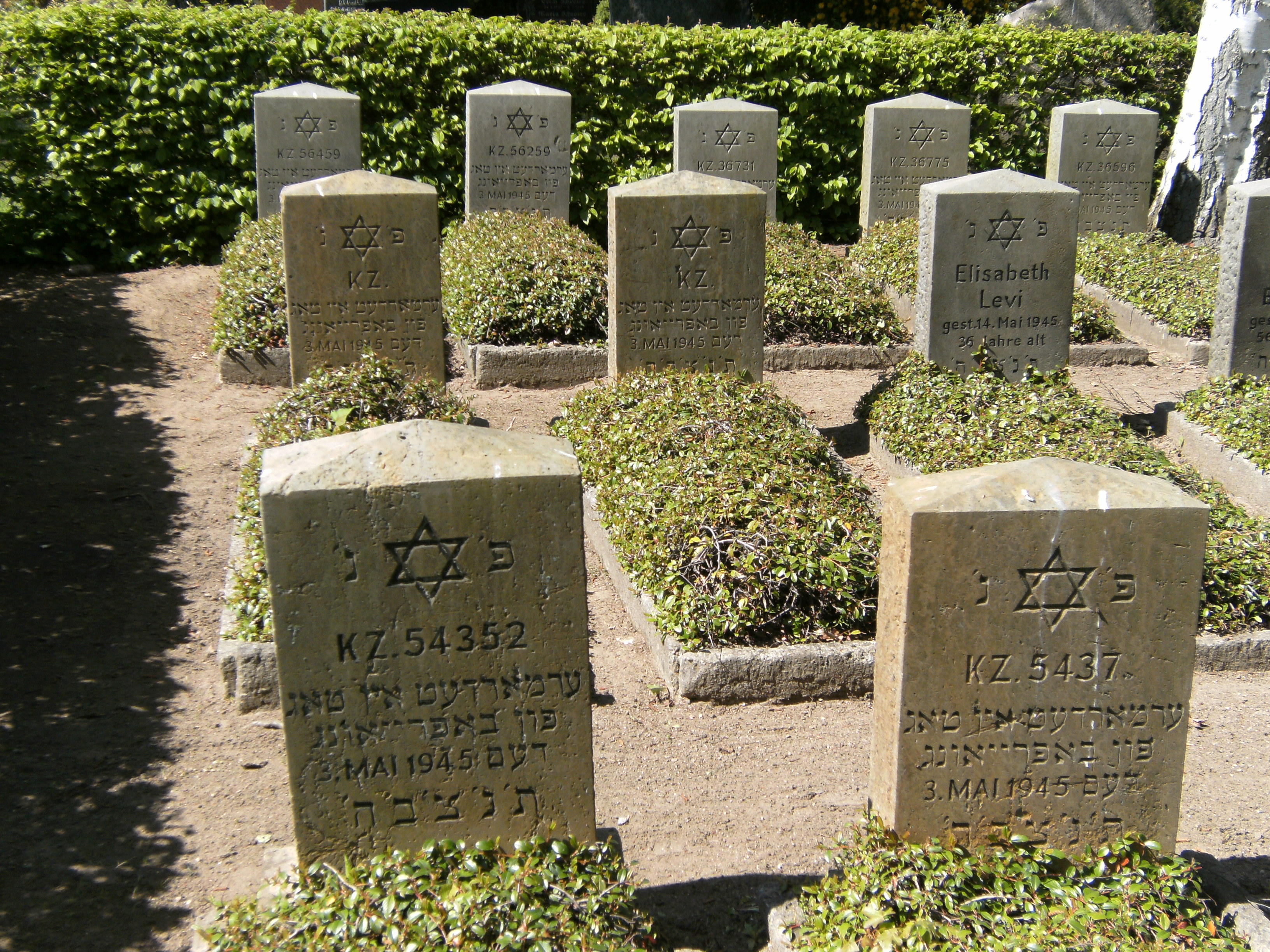 Jewish Cemetery in Neustadt in Holstein, Schleswig-Holstein, Germany: Gravestones with concentration camp numbers.